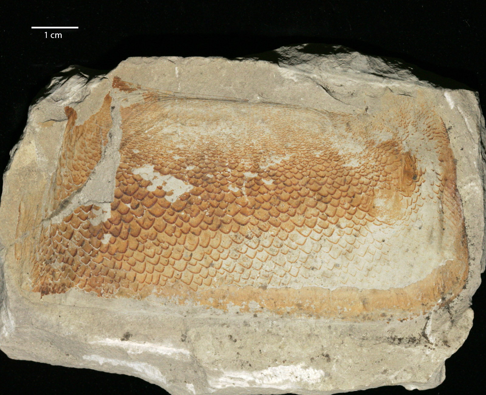 Pterygotus osiliensis Schmidt. Fragment of the extinct sea scorpion Pterygotus osiliensis Schmidt, displaying characteristic textures of the abdomen. Sea Scorpions belong to the class of Merostomata. Collected from limestones of the Lower-Silurian Rootsiküla Stage, Estonia. More info about this file and about this specimen at